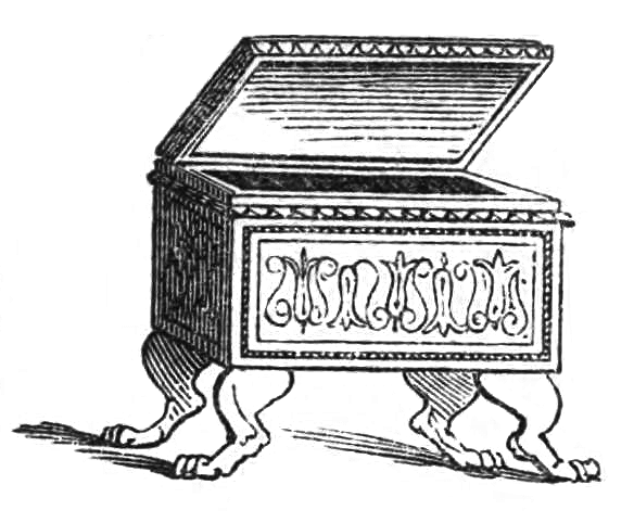 An acerra box